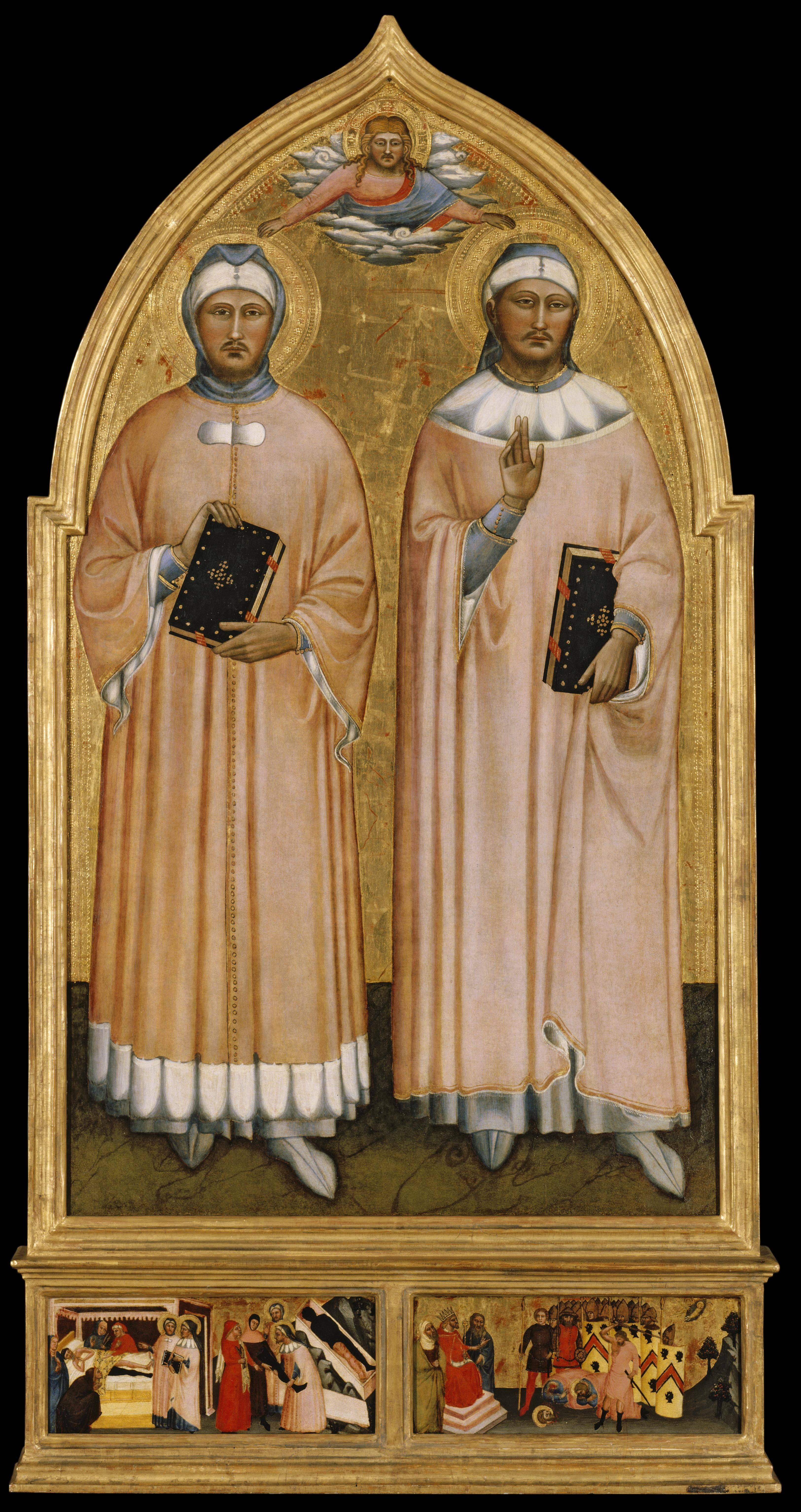 Matteo di Pacino. St. Cosmas and St. Damian 1370-75 North Carolina Museum of Art, Raleigh, NC